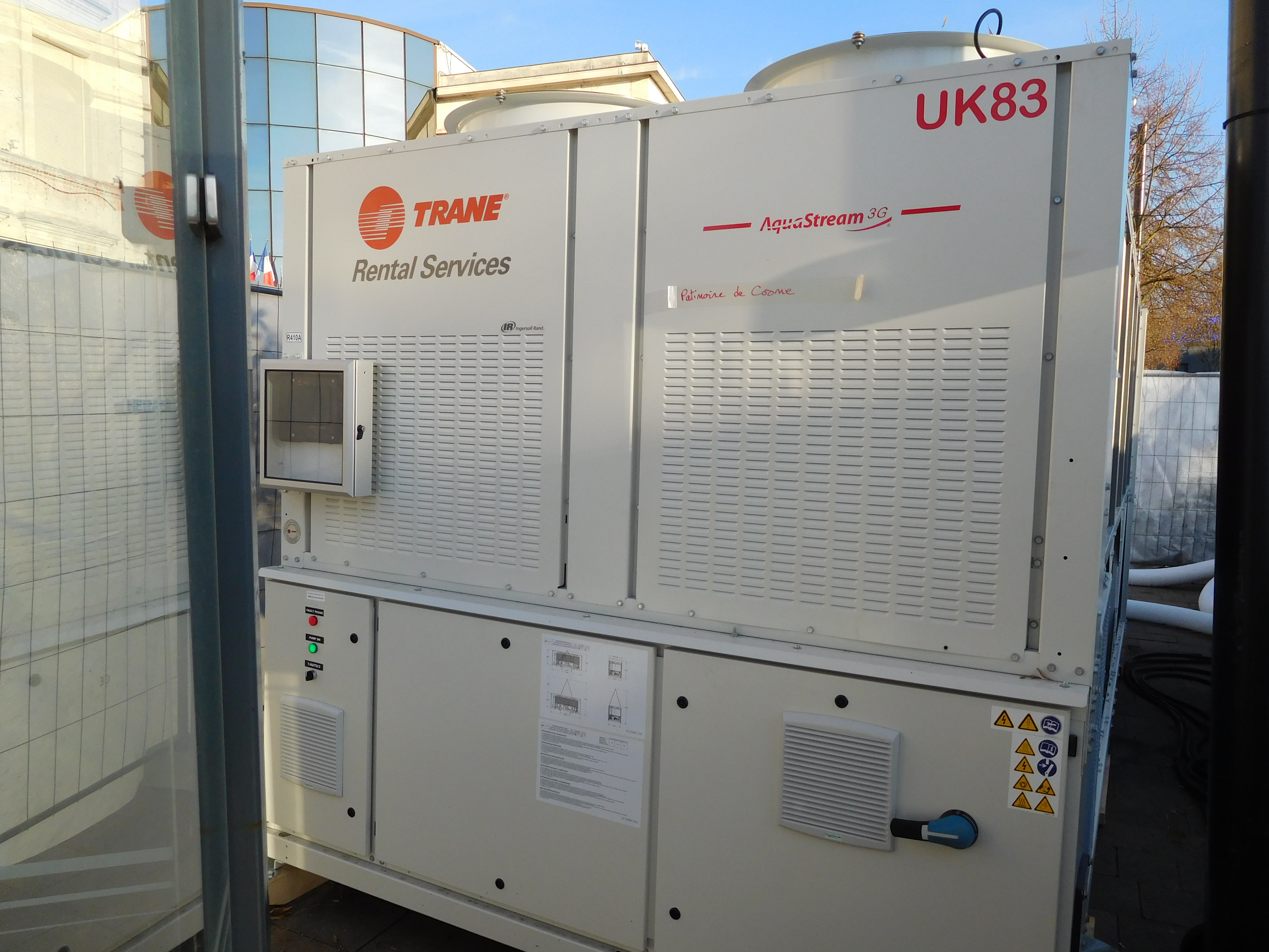 Trane AquaStream 3G air-cooled liquid chiller using R-410A refrigerant and equipped with 10 fans (2×5) for a temporary ice rink in France.